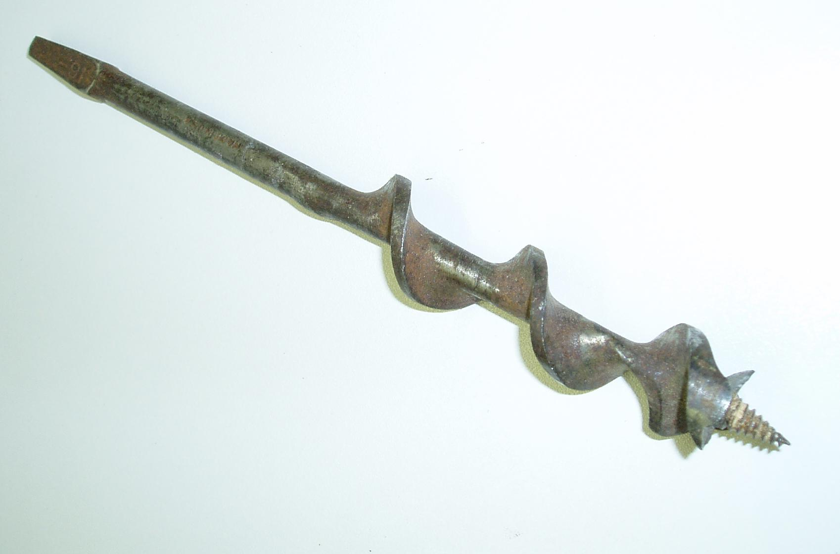 Picture of auger bit for brace taken 16 October 2005 by Luigi Zanasi (myself) on my workbench using a Olympus digital camera.